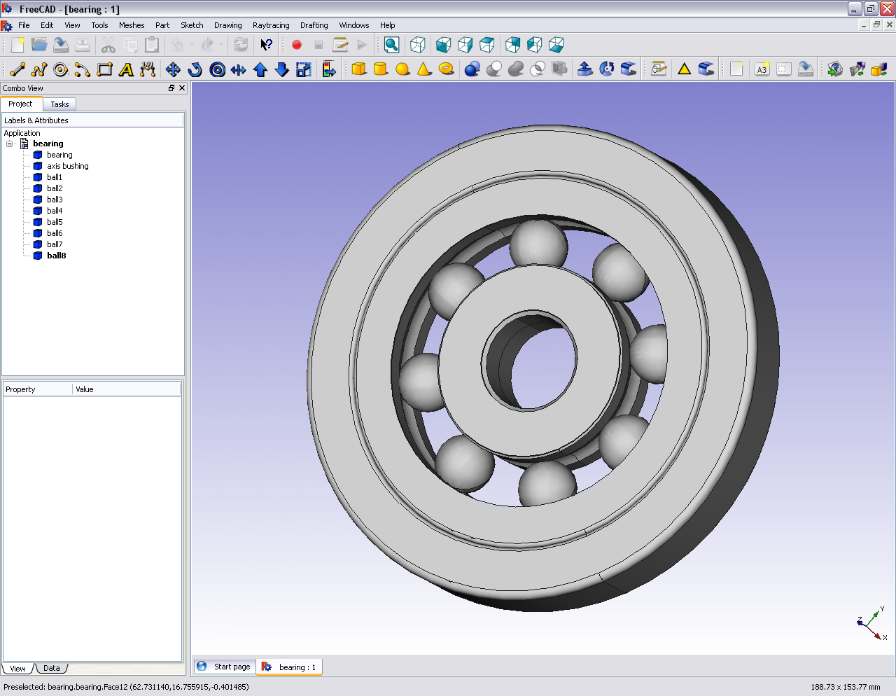 3D model of one ball bearing running on FreeCAD 0.10 (windows version).